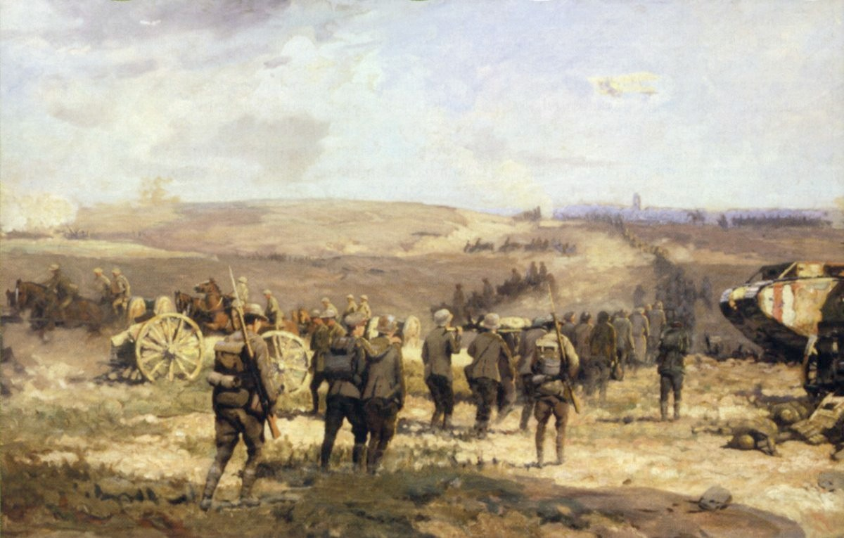 8th August, 1918 (oil-on-linen, 107 cm x 274 cm, 1918-1919) by Will Longstaff, Australian official war artist. Depicts a scene during the Battle of Amiens. The view is towards the west, looking back towards Amiens. A column of German prisoners of war being led into captivity. Meanwhile horse-drawn artillery are advancing to the east.